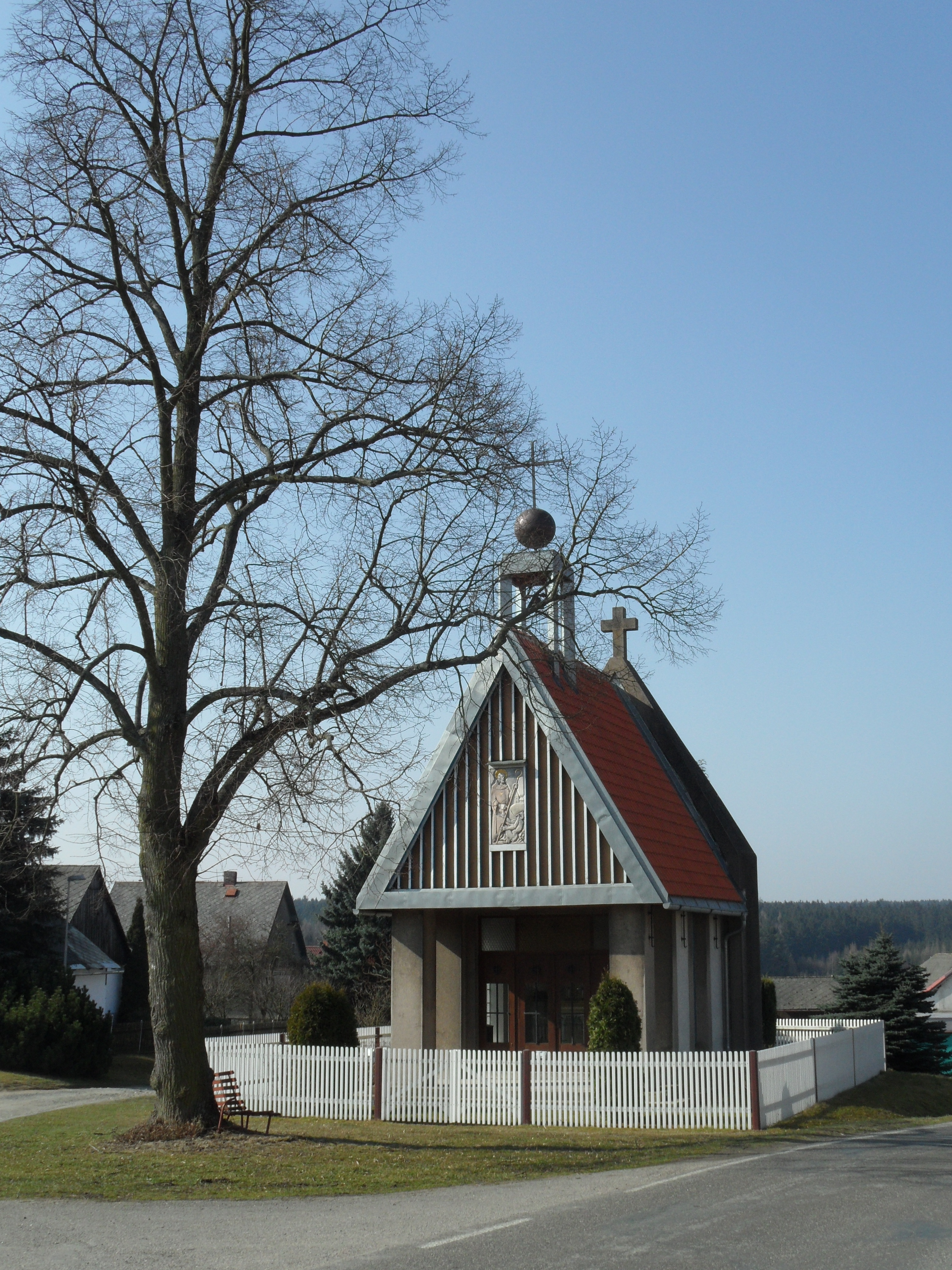 Nová Ves u Leštiny I. Church and Tree. Havlíčkův Brod District, the Czech Republic.